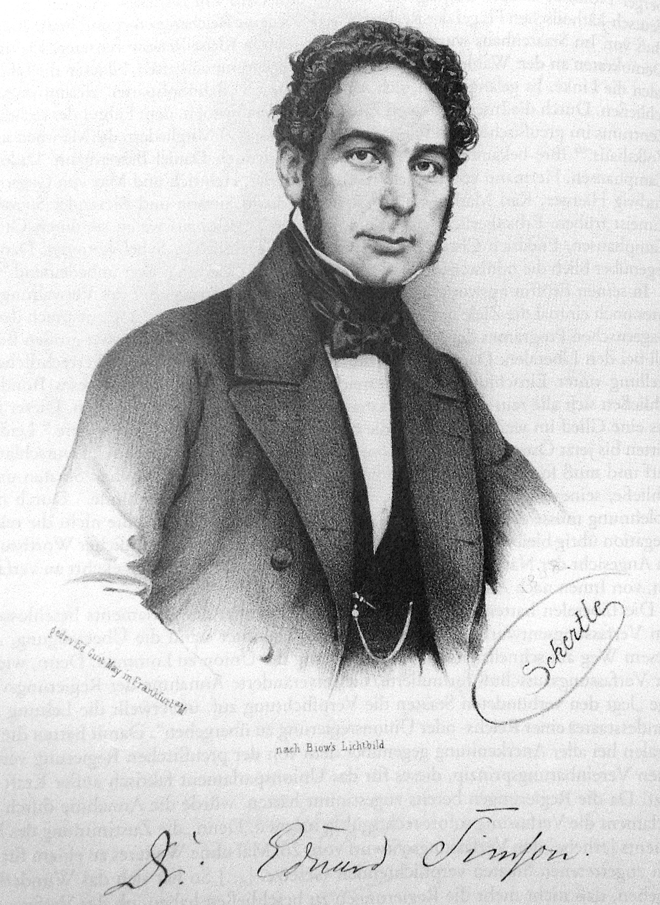 Eduard Simson.